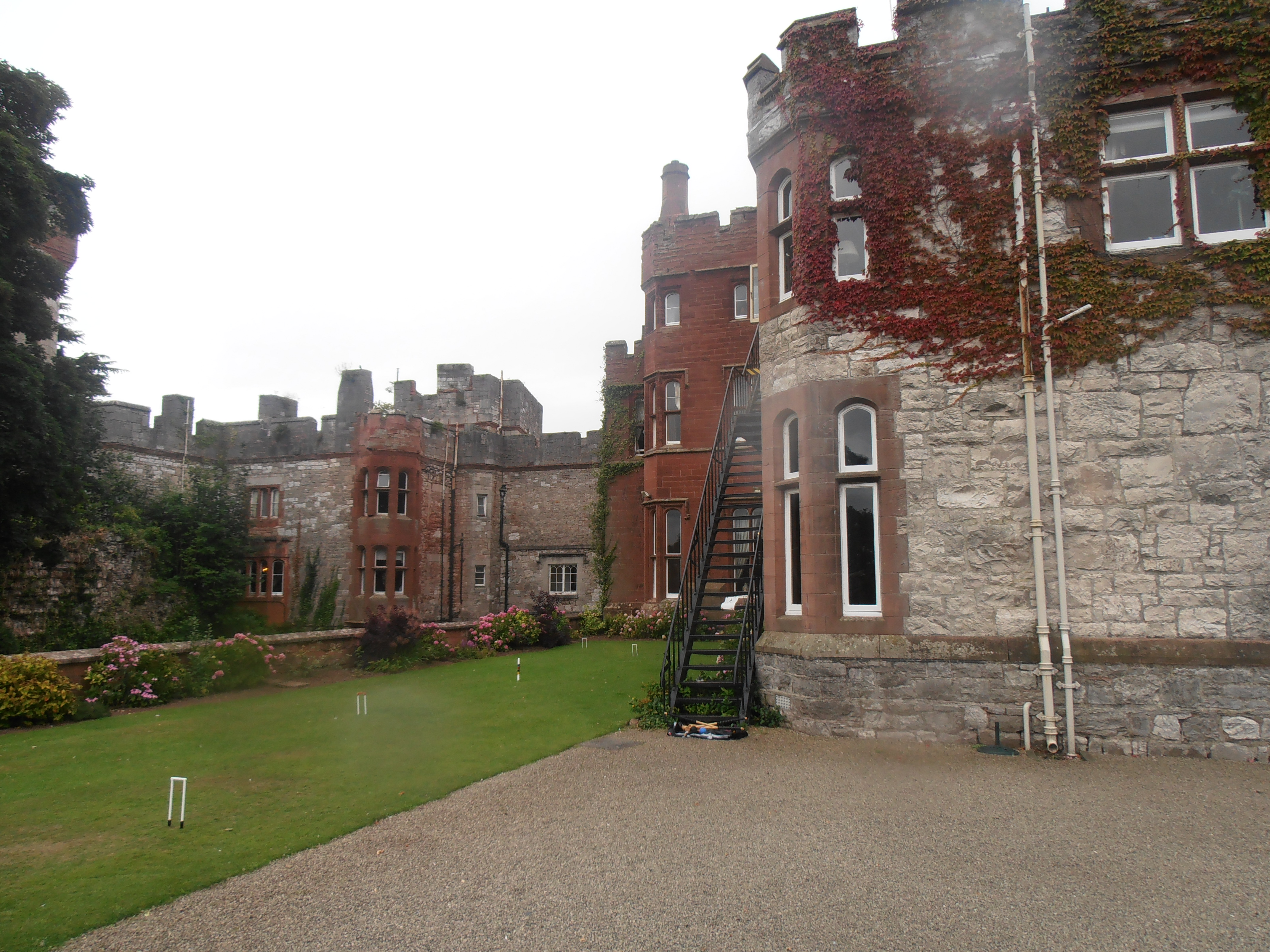 Castell Rhuthun (Ruthin Castle), Sir Ddinbych. Ruthin Castle, Ruthin, Denbighshire, Wales.